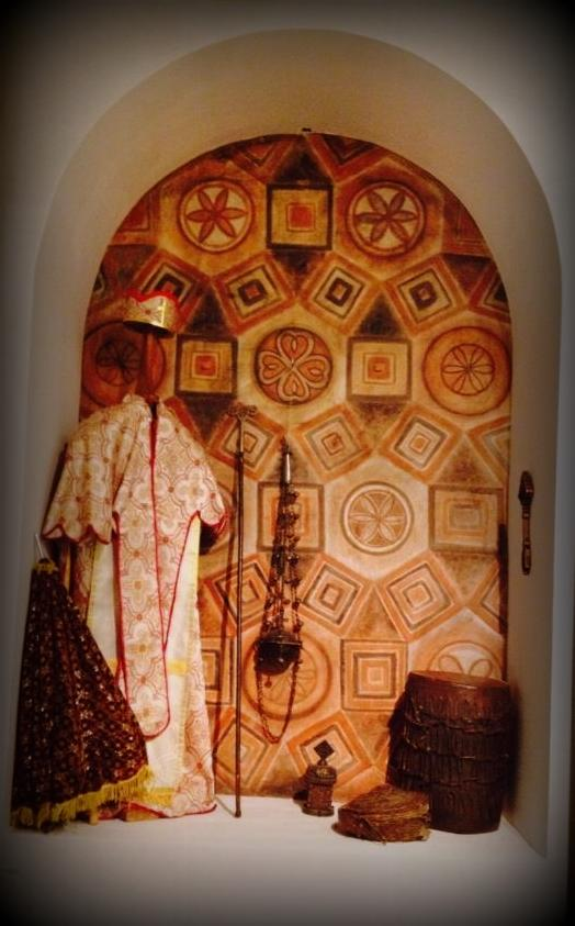 Hall of Ethiopian Art in the Museum of the Russian icon in Moscow.